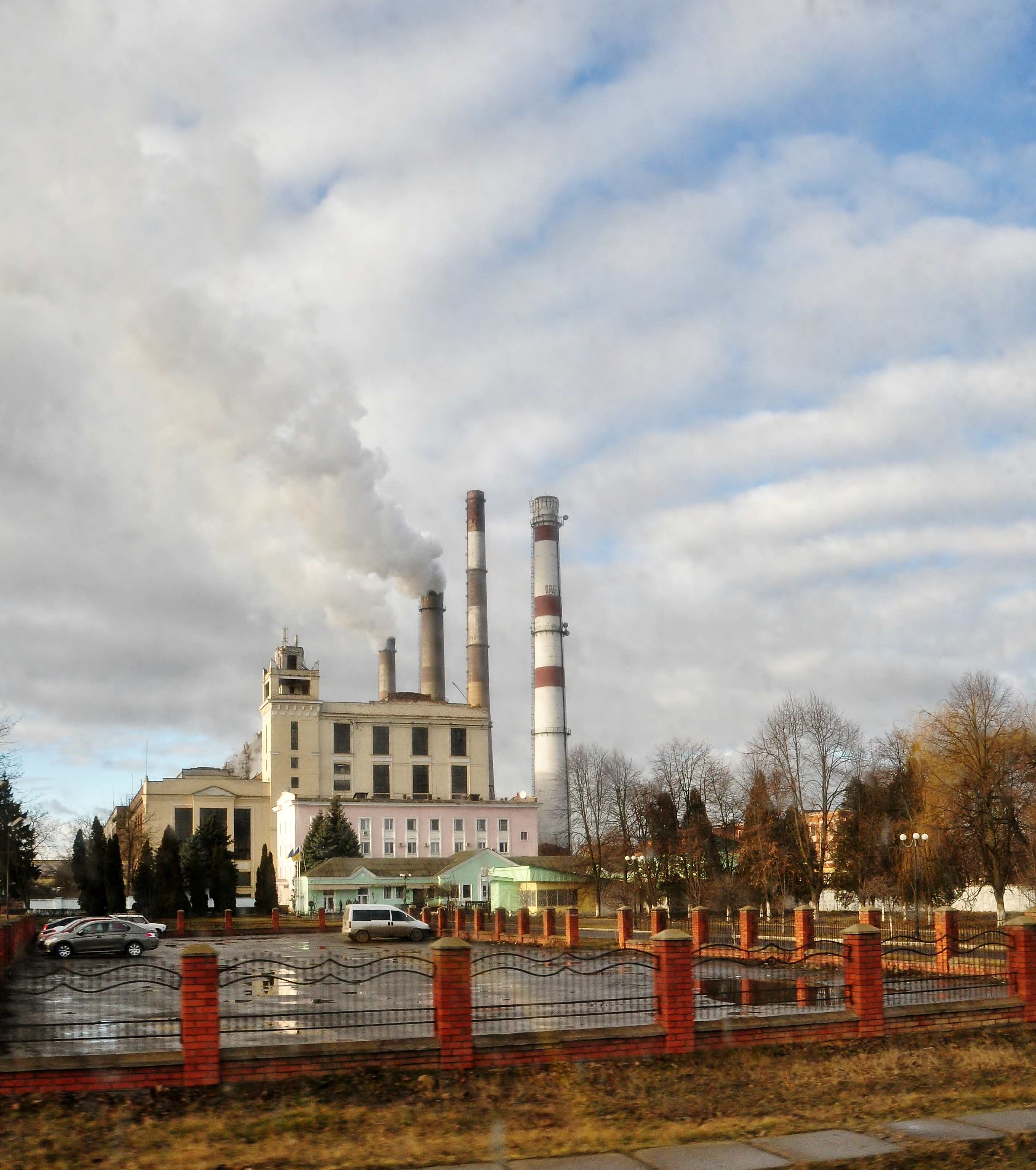 Dobrotvir Thermal Power Plant, Kamyanka-Buzka Raion, Lviv Oblast